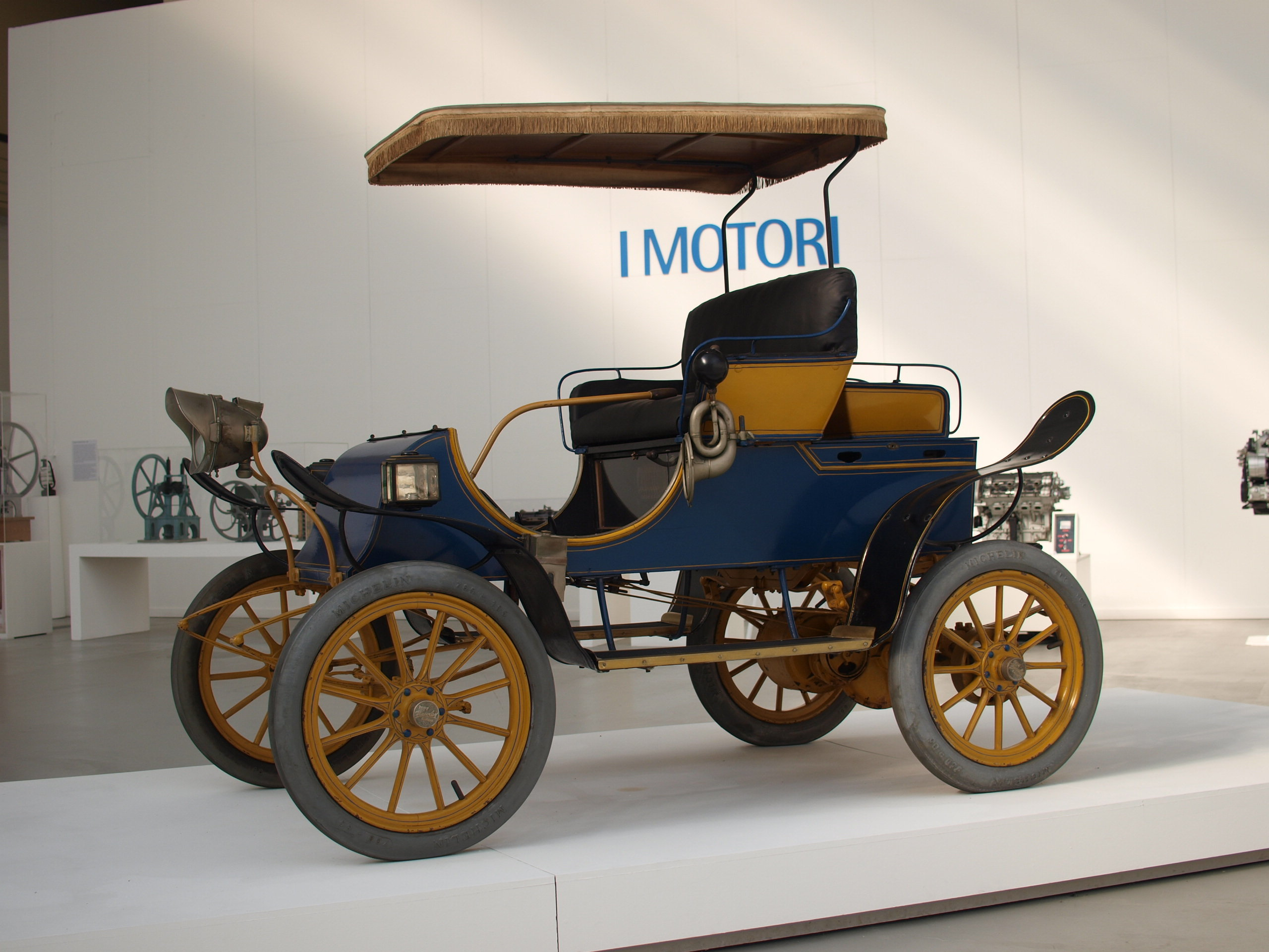 Pope-Waverley Electric Runabout - United States 1907 designation Pope C/60 V not verified L'evoluzione dell'automobile